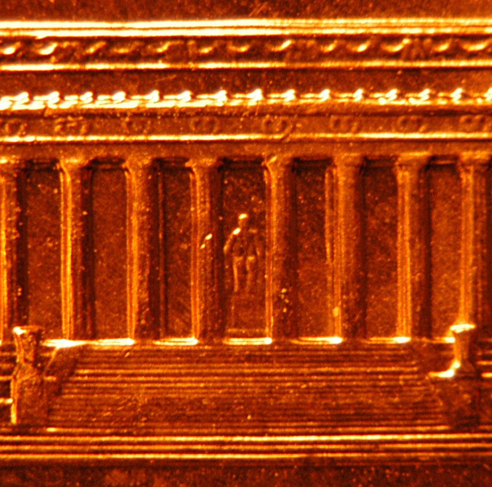 Photo of the statue of Lincoln on the revers of a U.S. cent. Taken by user Lorax and placed in the Public Domain